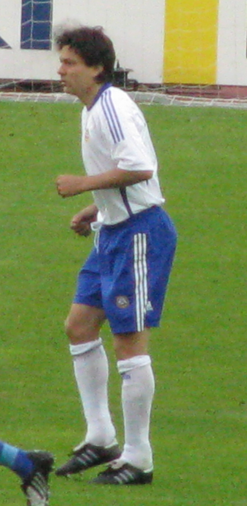 Jari Litmanen in action!